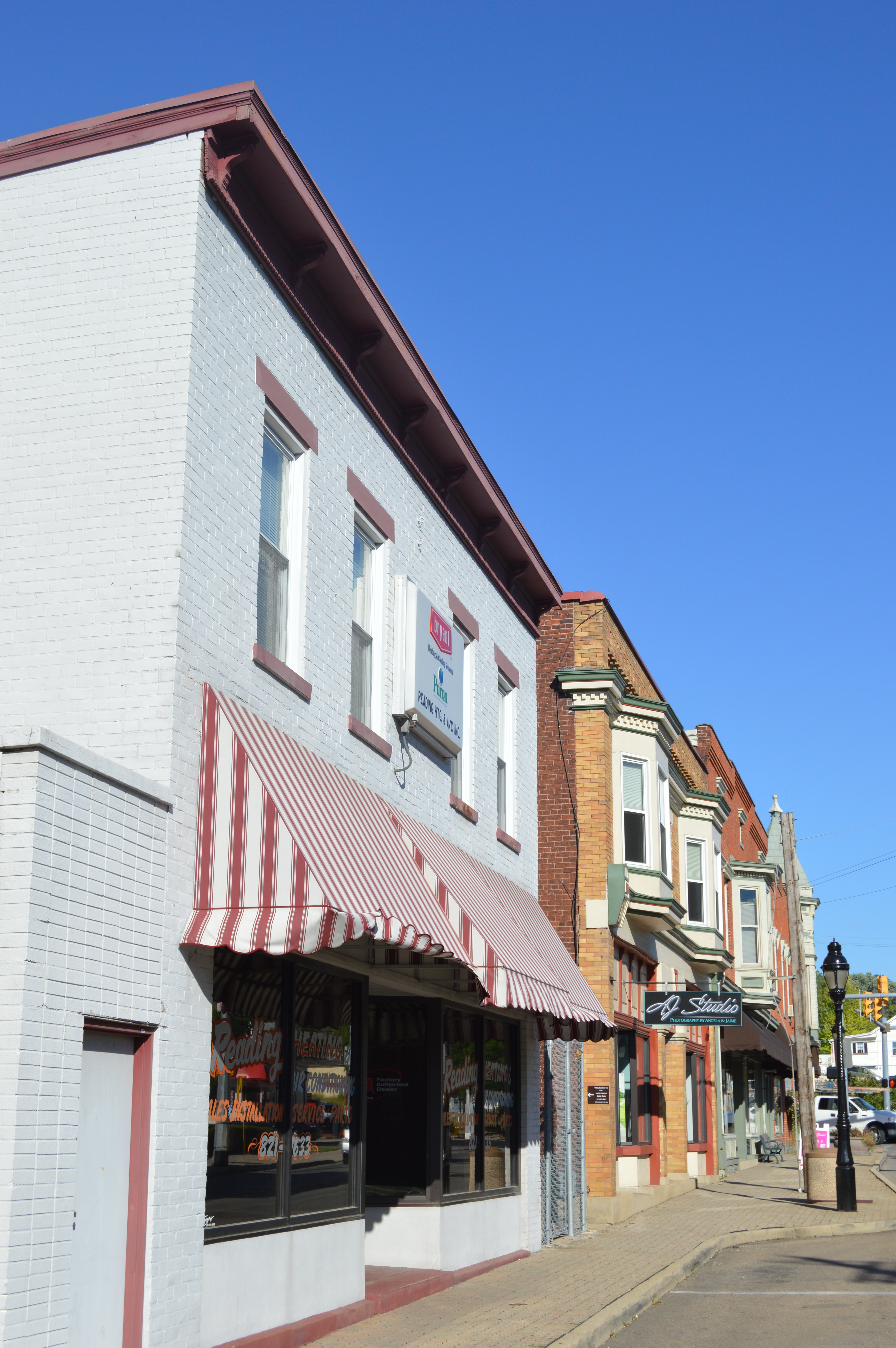 Buildings on the northern side of Benson Street, seen looking eastward from Lind Street, in Reading, Ohio, United States.